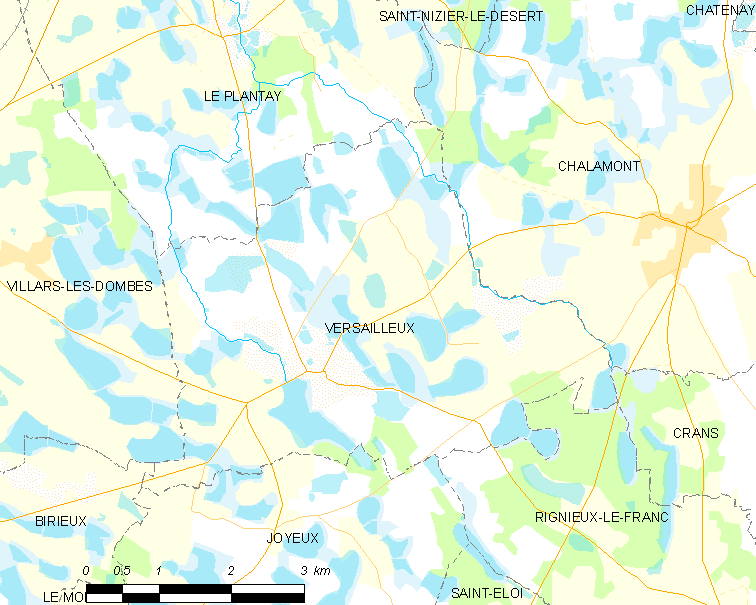 Map of French commune: Versailleux Map commune FR insee code 01434.png